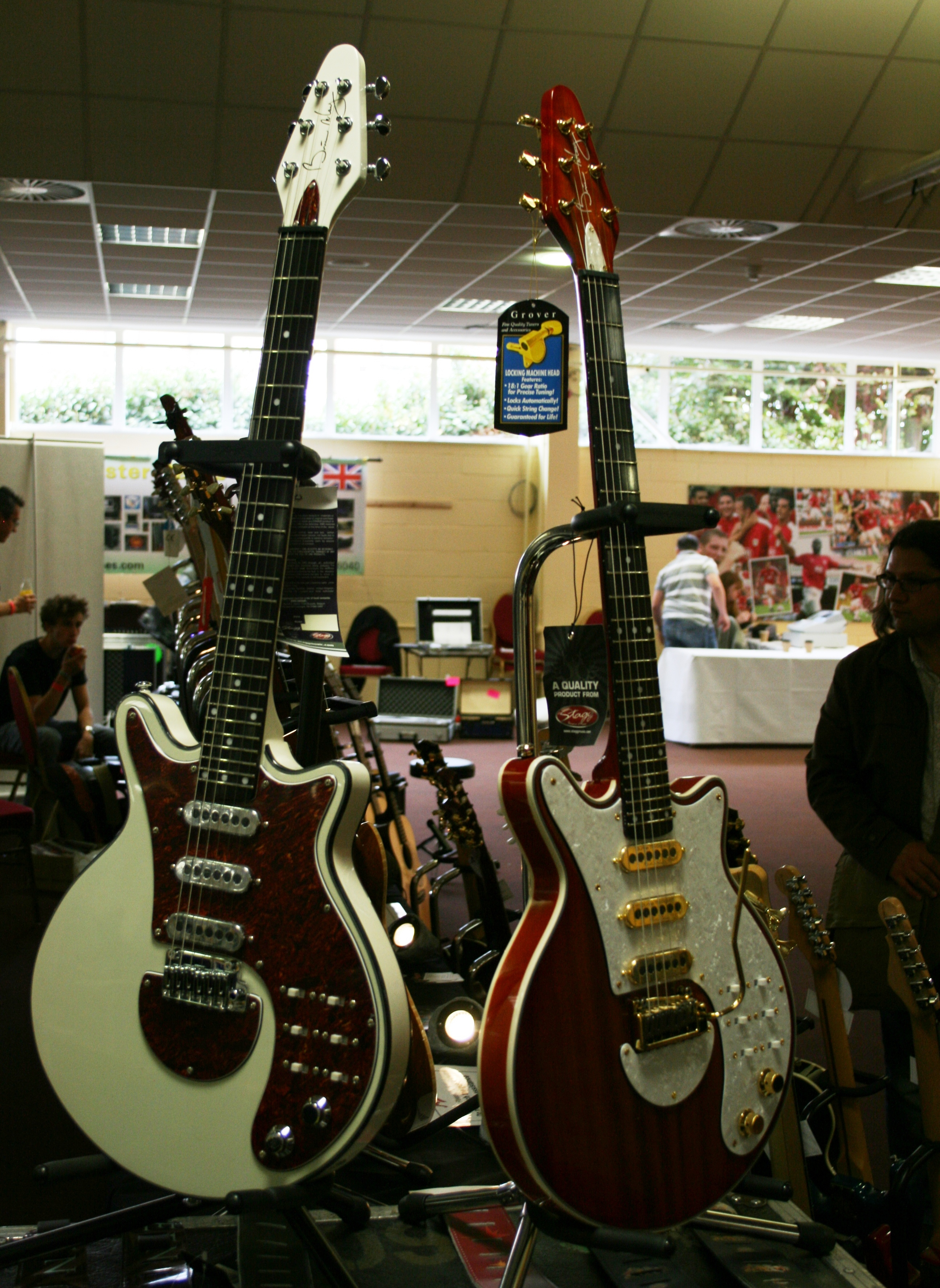 Brian May Guitars (BMG) Brian May Special Twin Pretties